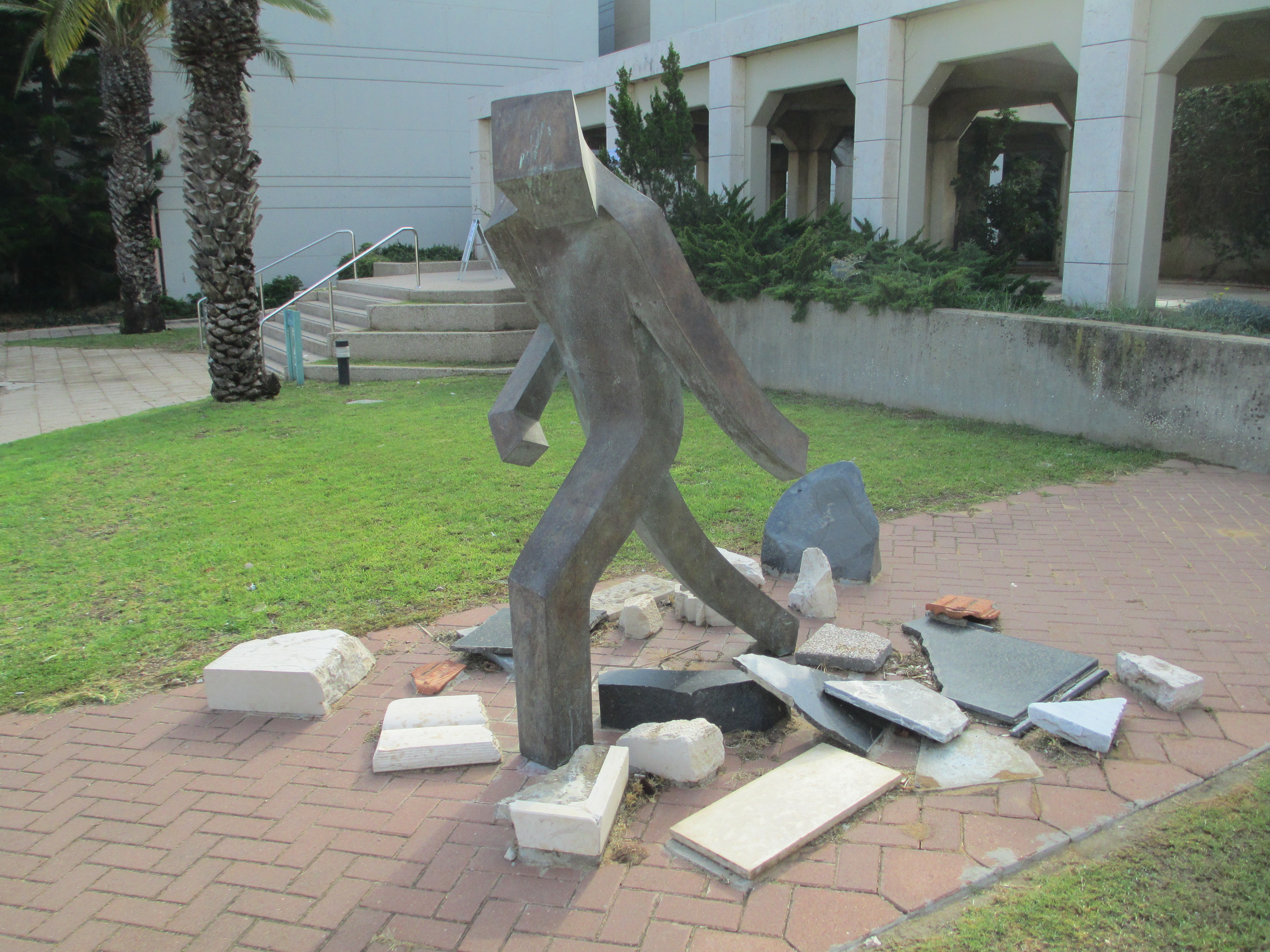 Shoa and Revival sculpture in Tel Aviv University